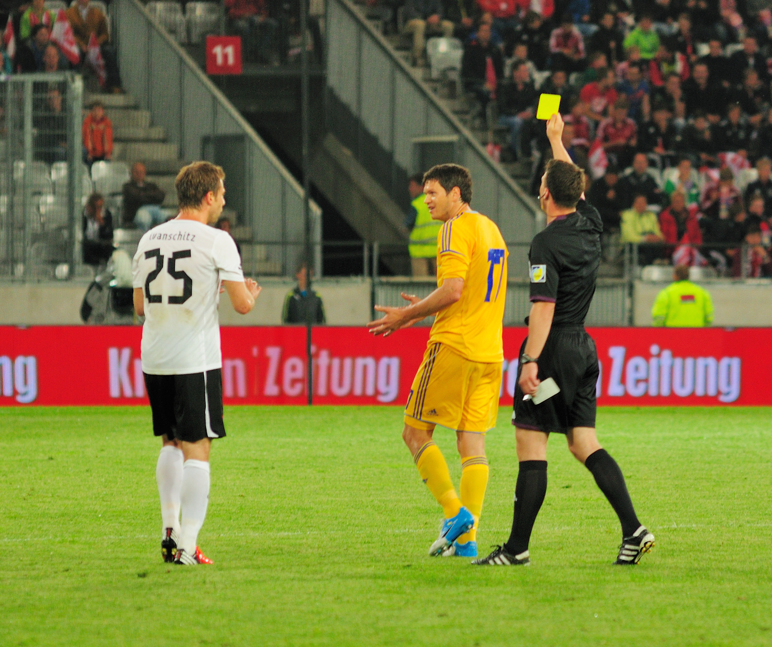 Exhibition game Austria vs. Ukraine at 1st. June 2012